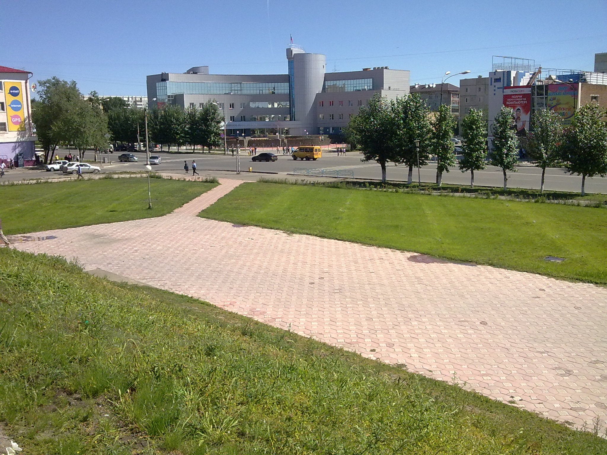 Kyzyl: The Arbitration Court of the Republic of Tuva